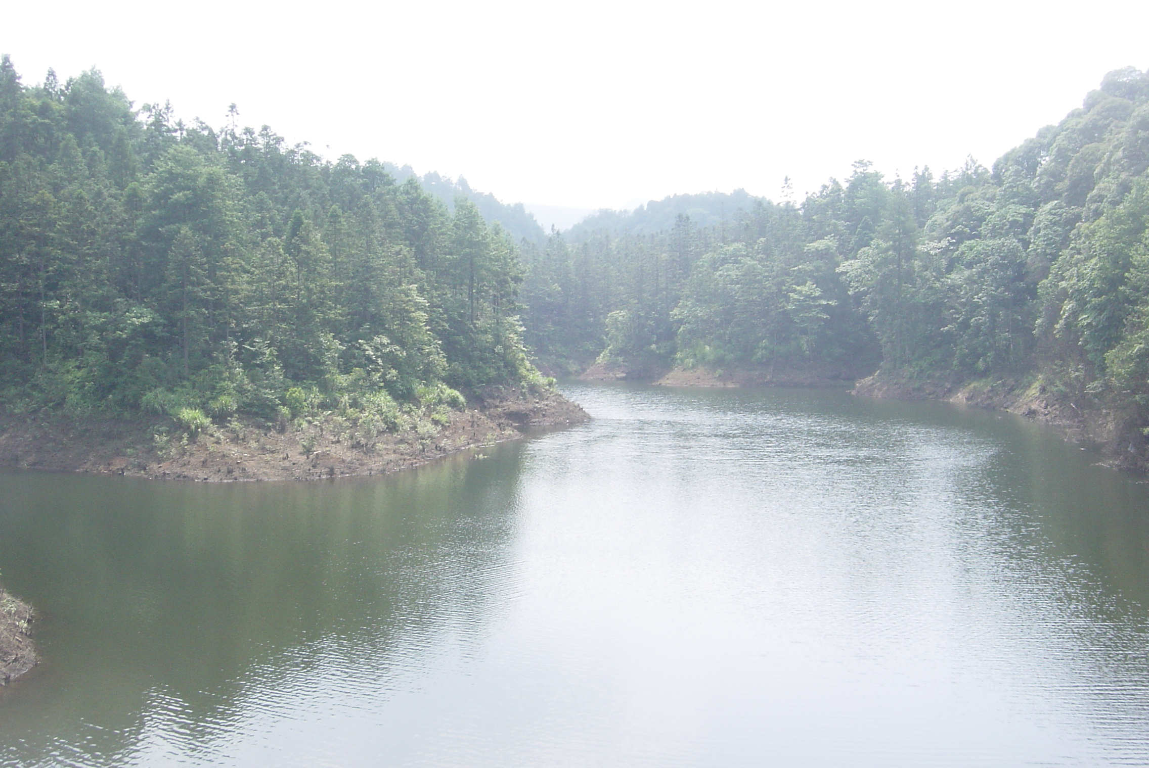 The Great Red Sea in Simian Mountain,Jiangjin,Chongqing.This photo has been taken by Mr.Chen Hualin